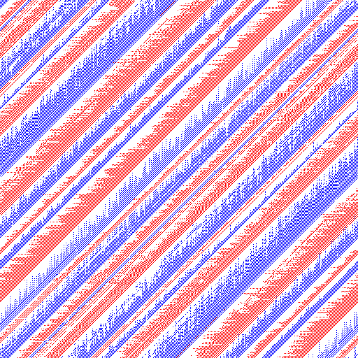 A lattice for the Biham-Middleton-Levine traffic model after 64000 iterations. The lattice is 512 by 512, with a traffic density of 29%. The red cars and blue cars take turns to move; the red ones only move rightwards, and the blue ones move downwards. Every time, all the cars of the same colour try to move one step if there is no car in front of it. The initial position before running is shown in File:Bml x 512 y 512 p 29 iterated 0.png. The graph of mobility versus time (mobility is the number of cars that can move in a particular turn) is shown at File:Bml x 512 y 512 p 29 MOBILITY.png. This was created with C++. Source code is located at user:Purpy Pupple/BML.